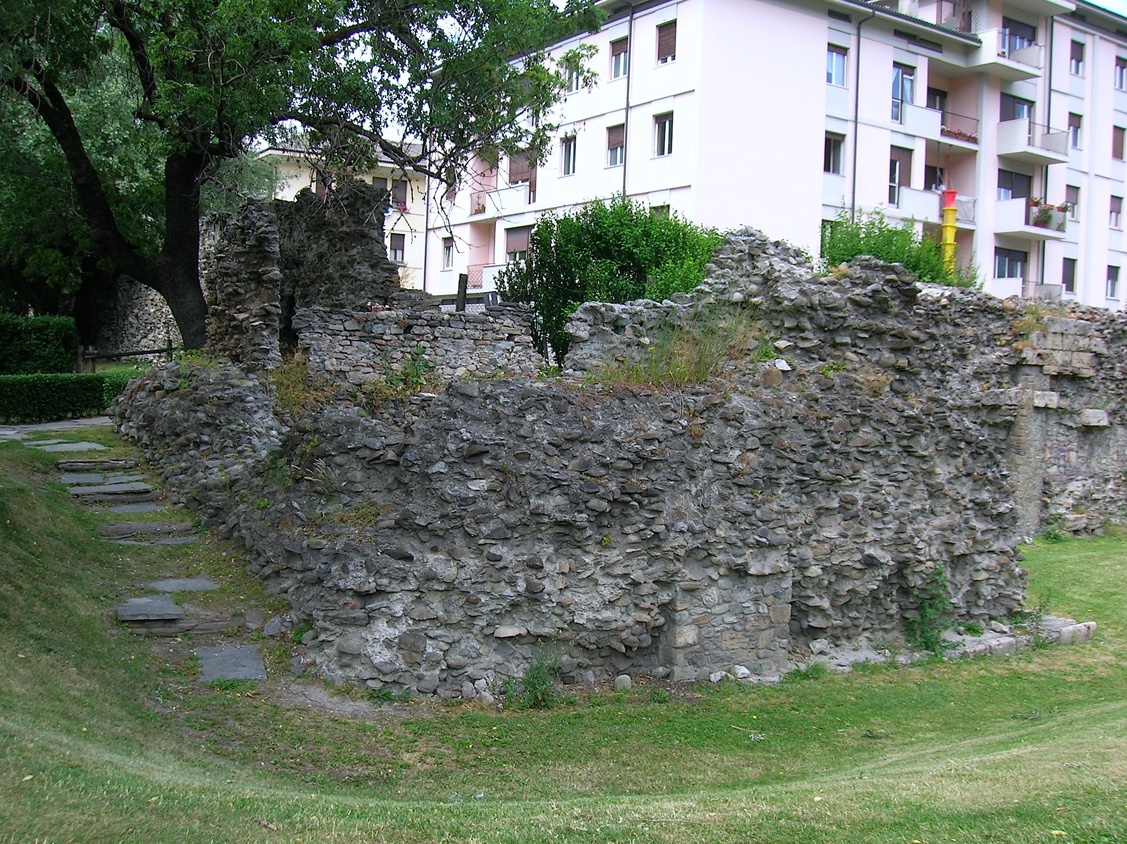 Ancient Roman tower in Roman walls of Aosta, Aosta Valley, Italy.